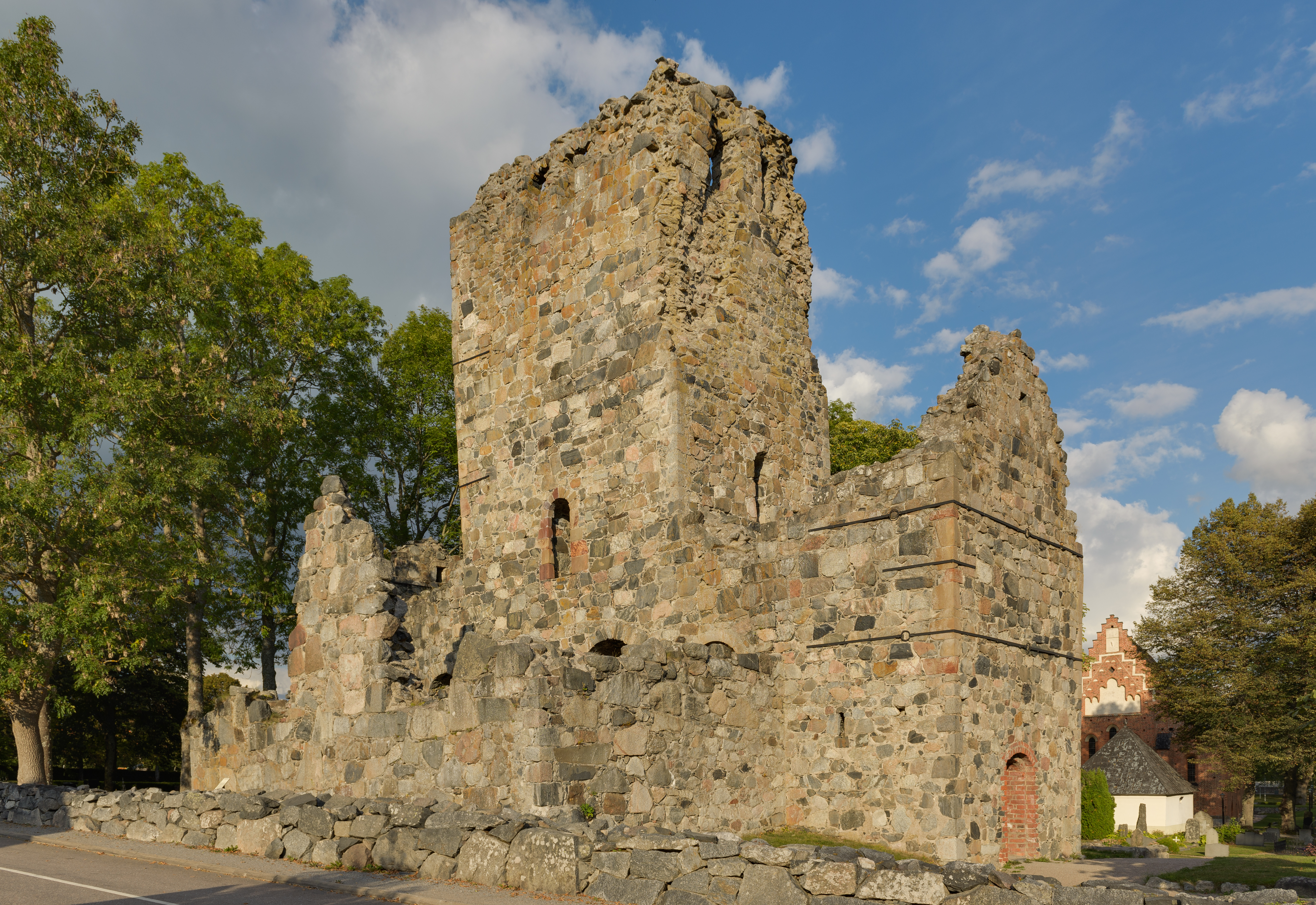 Ruins of the St Olof Church at Sigtuna.